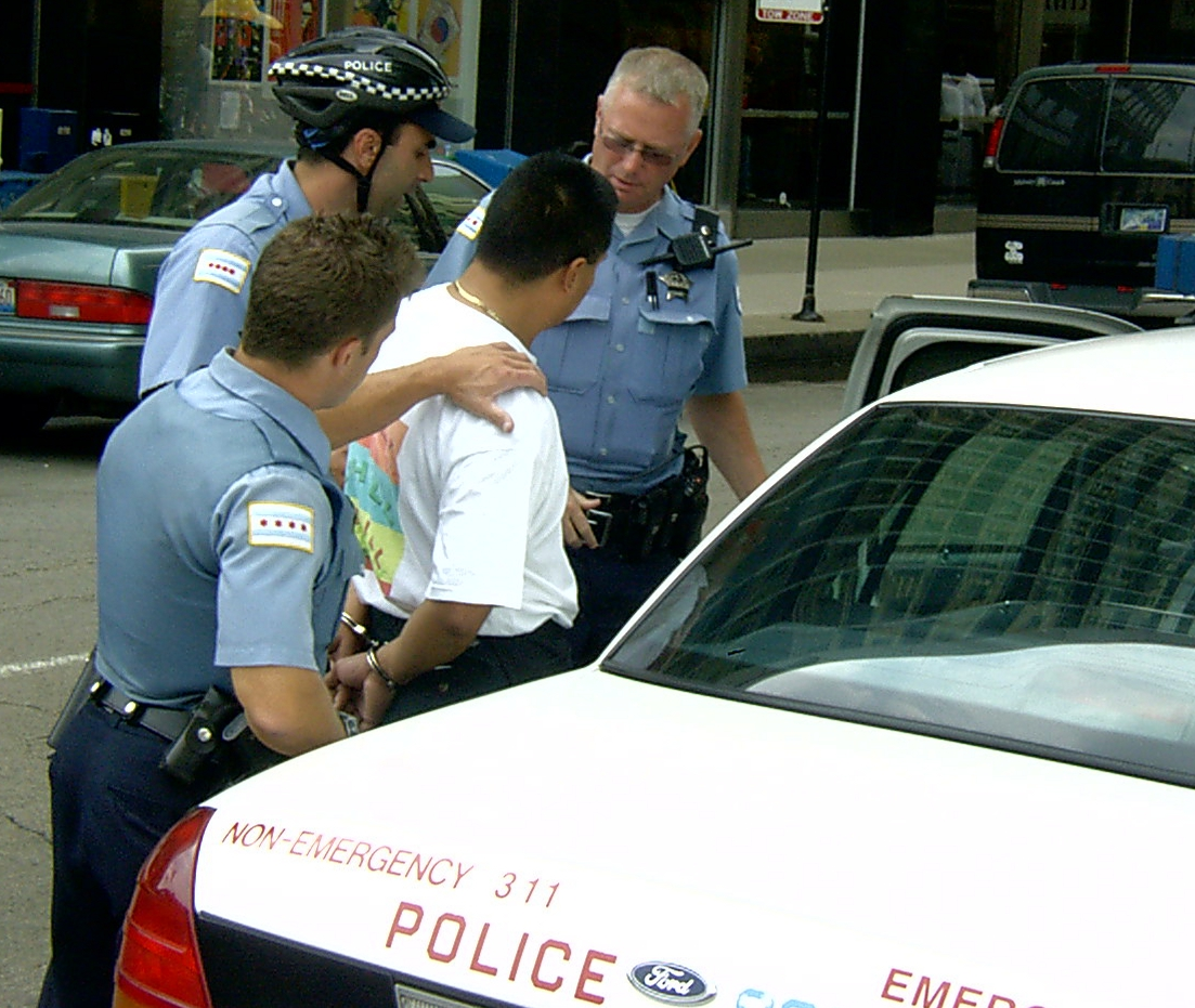 A man being arrested by the Chicago police department.